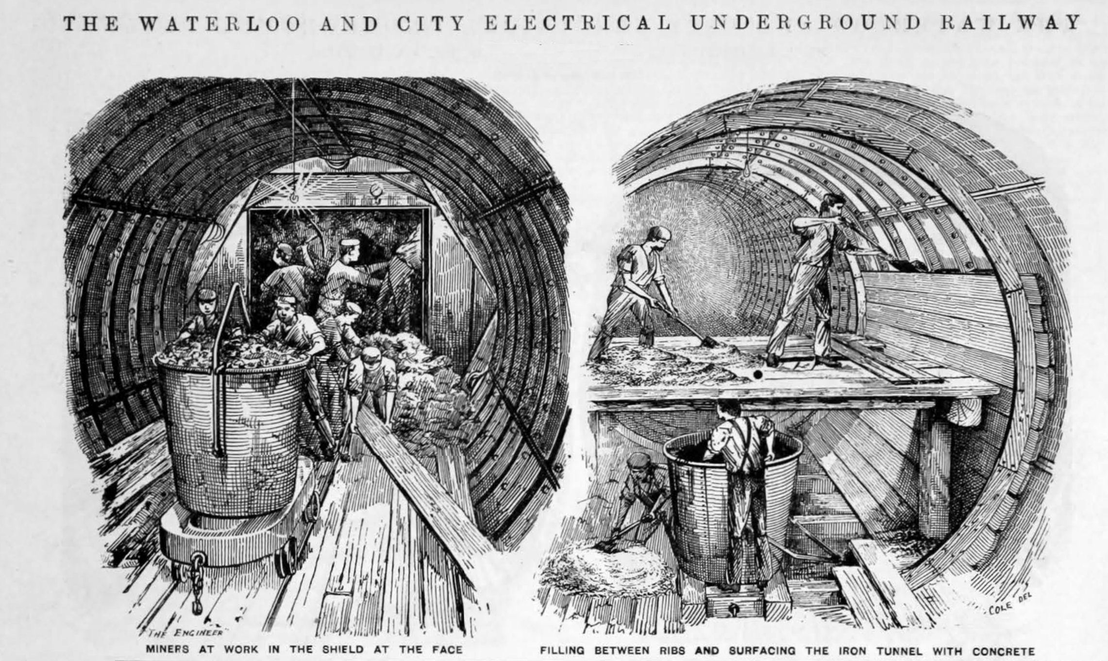 The Greathead tunnelling shield designed by James Henry Greathead in use in the construction of the Waterloo & City Railway, London